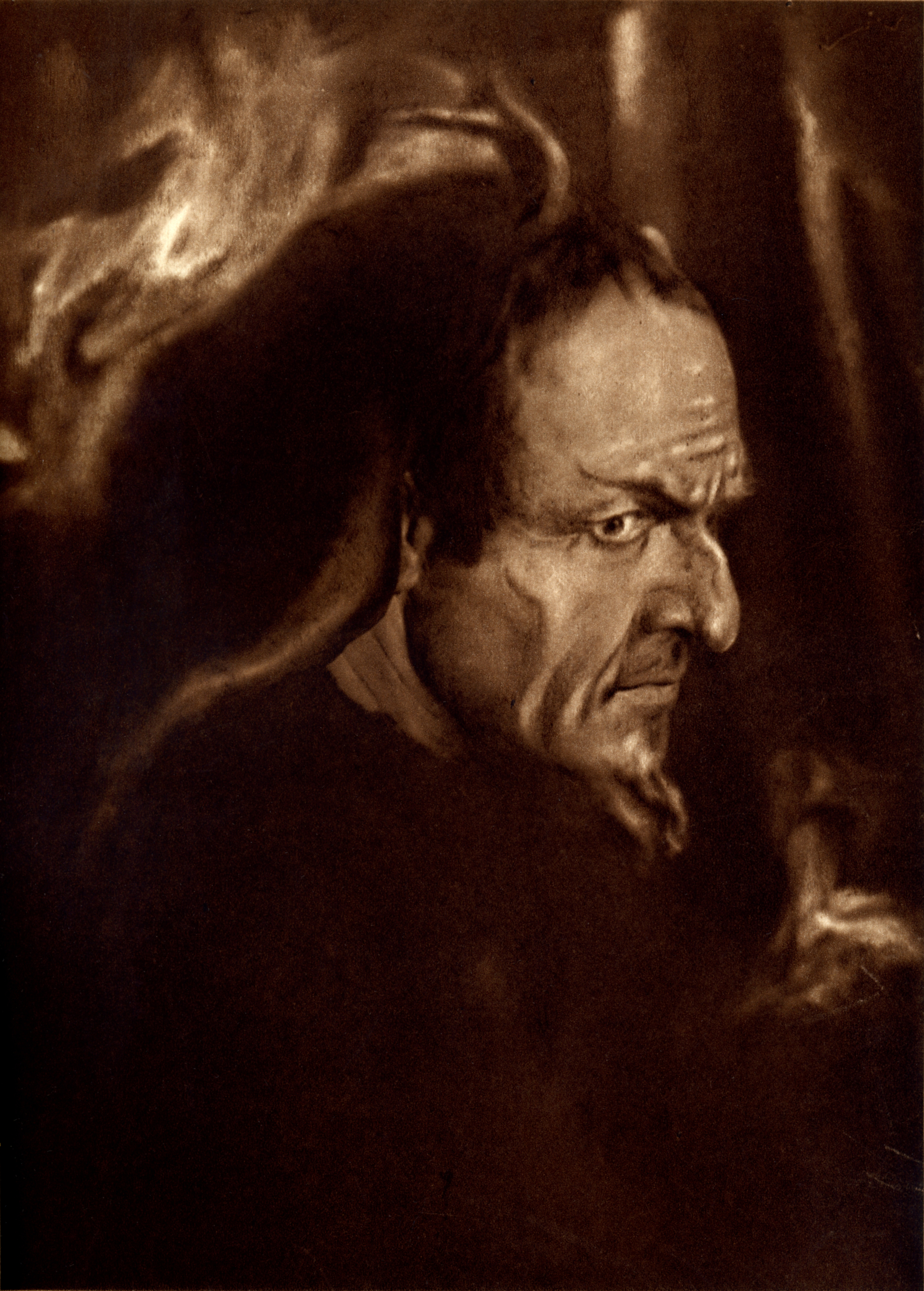 Russian bass, Feodor Chaliapin (1873 - 1938) as_“Mefistofele” 1910